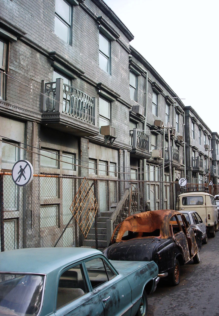 Sets in Ramoji Film City, Hyderabad, India